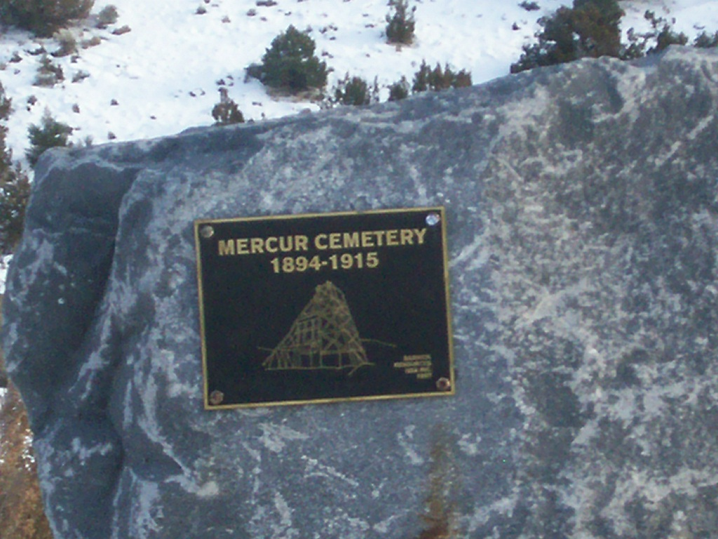 Memorial plaque outside of the old Mecur Cemetery, Mercur, Utah.